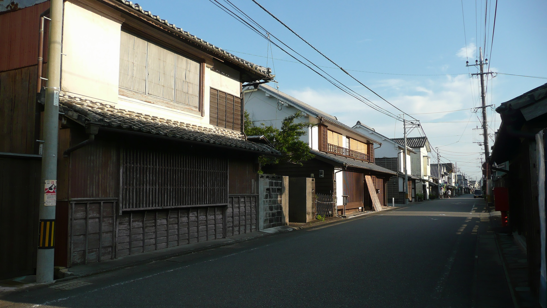 Mimitsu (Hyuga City, Miyazaki, Japan)